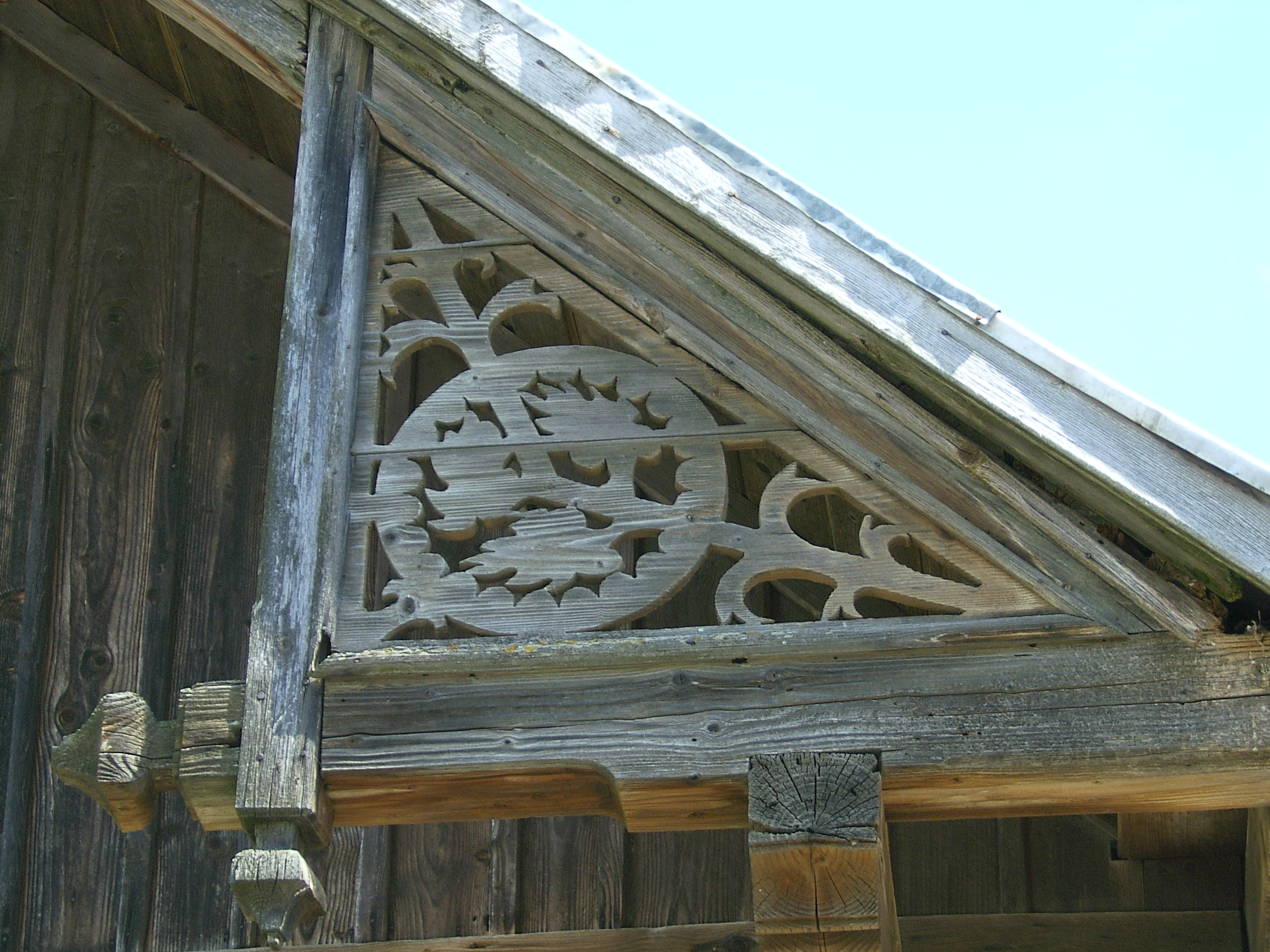 Detail of a building in Nearşova (hu. Nyárszó) Transylvania